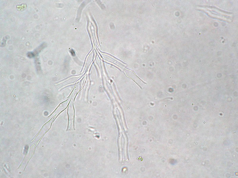 This work is free and may be used by anyone for any purpose. If you wish to use this content, you do not need to request permission as long as you follow any licensing requirements mentioned on this page.